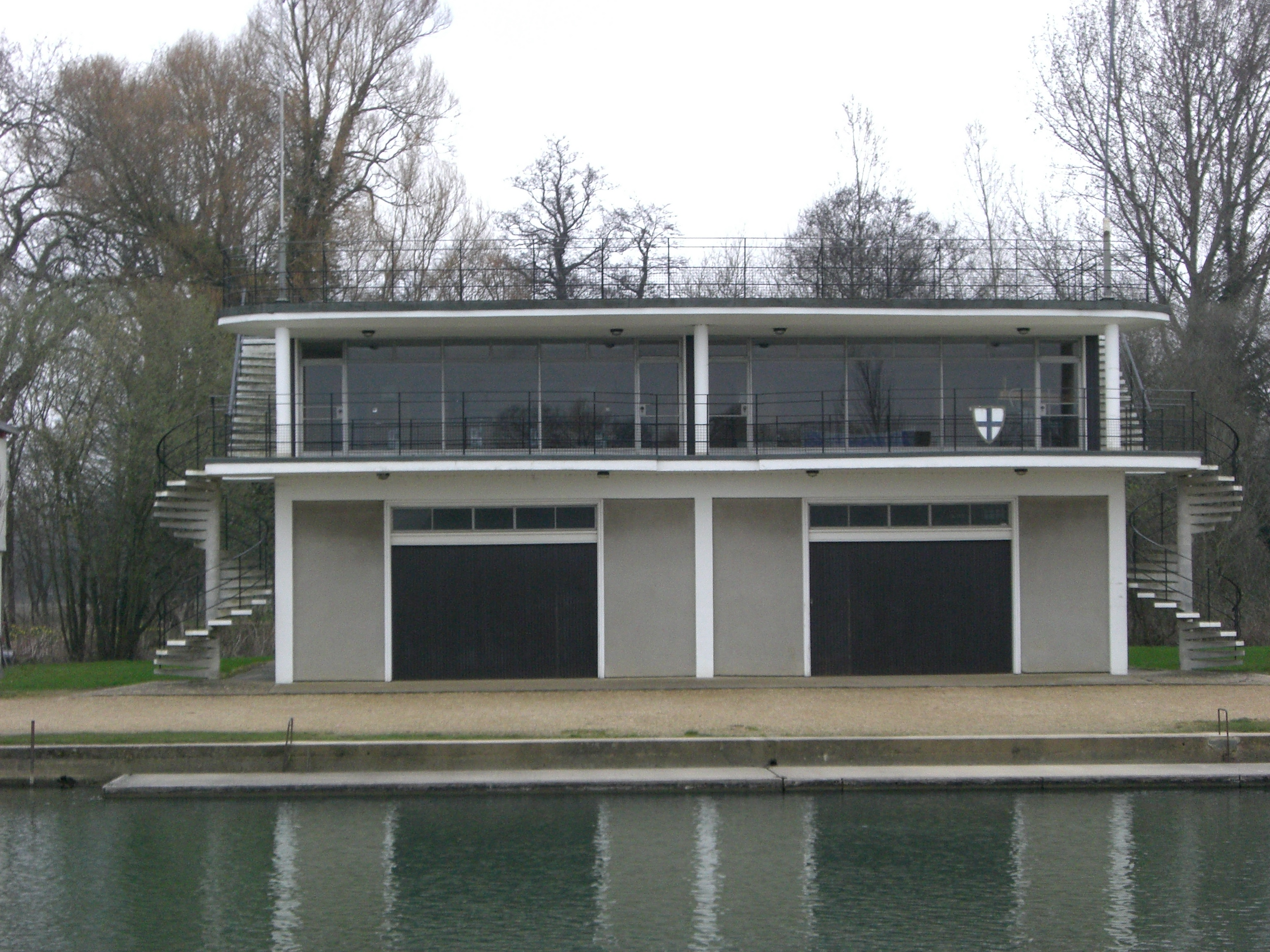 Boathouse on the River Thames, just south of Folly Bridge in Oxford.